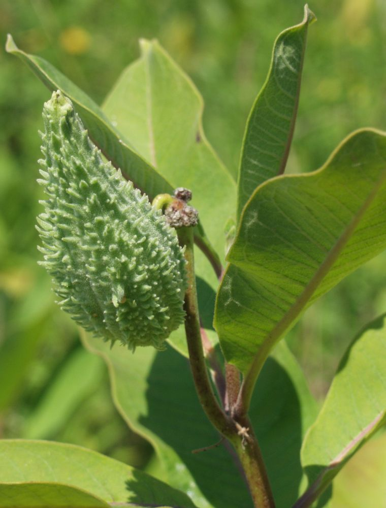 Asclepias syriaca in Hanság, Hungary